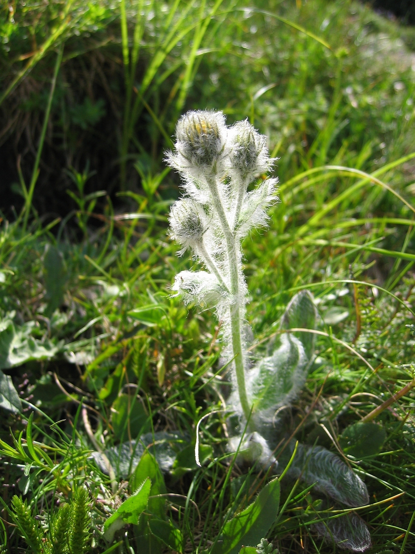 Hieracium villosum, Hinterstoder, Upper Austria, Austria